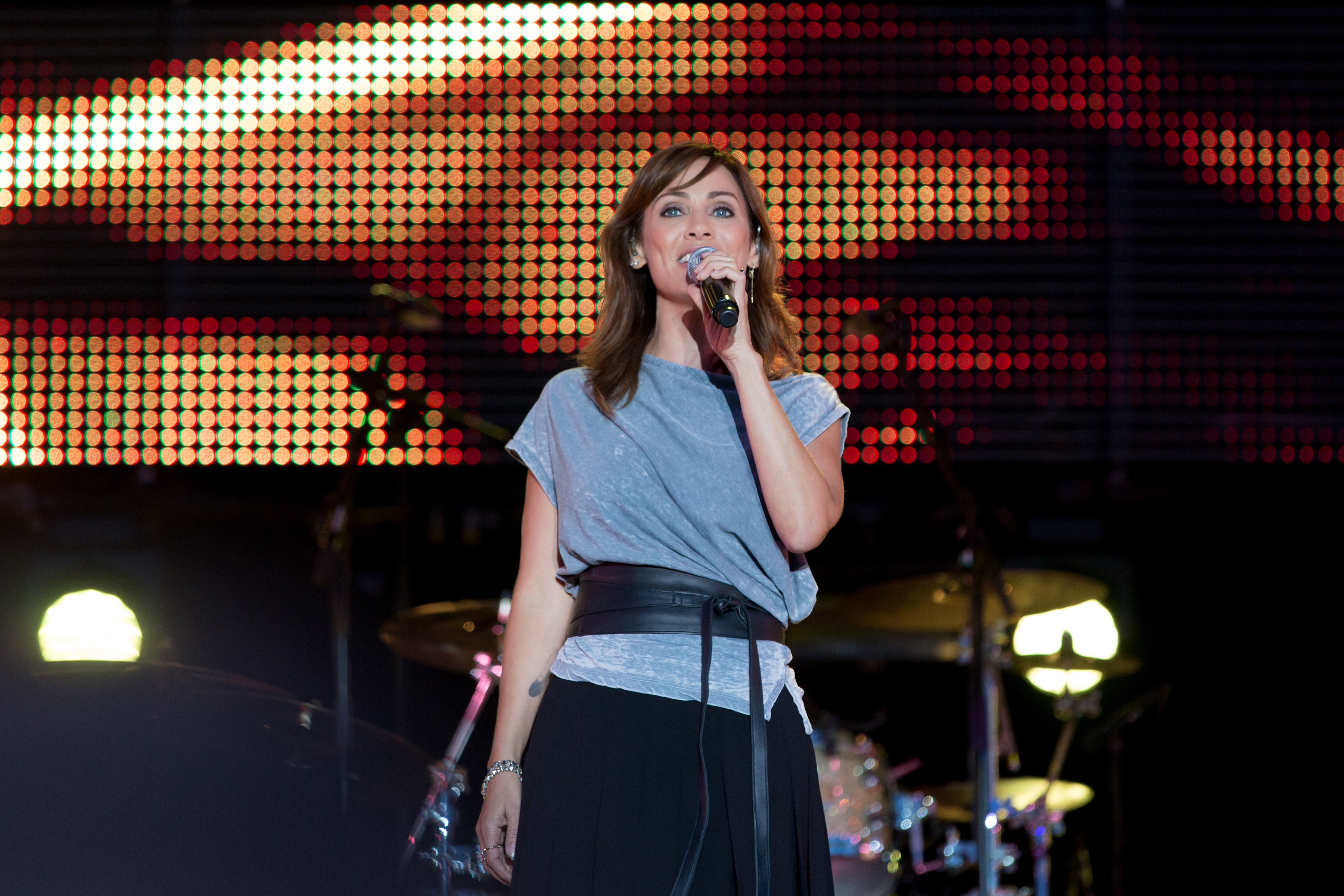 Natalie Imbruglia at Donauinselfest 2015 in Vienna, Austria